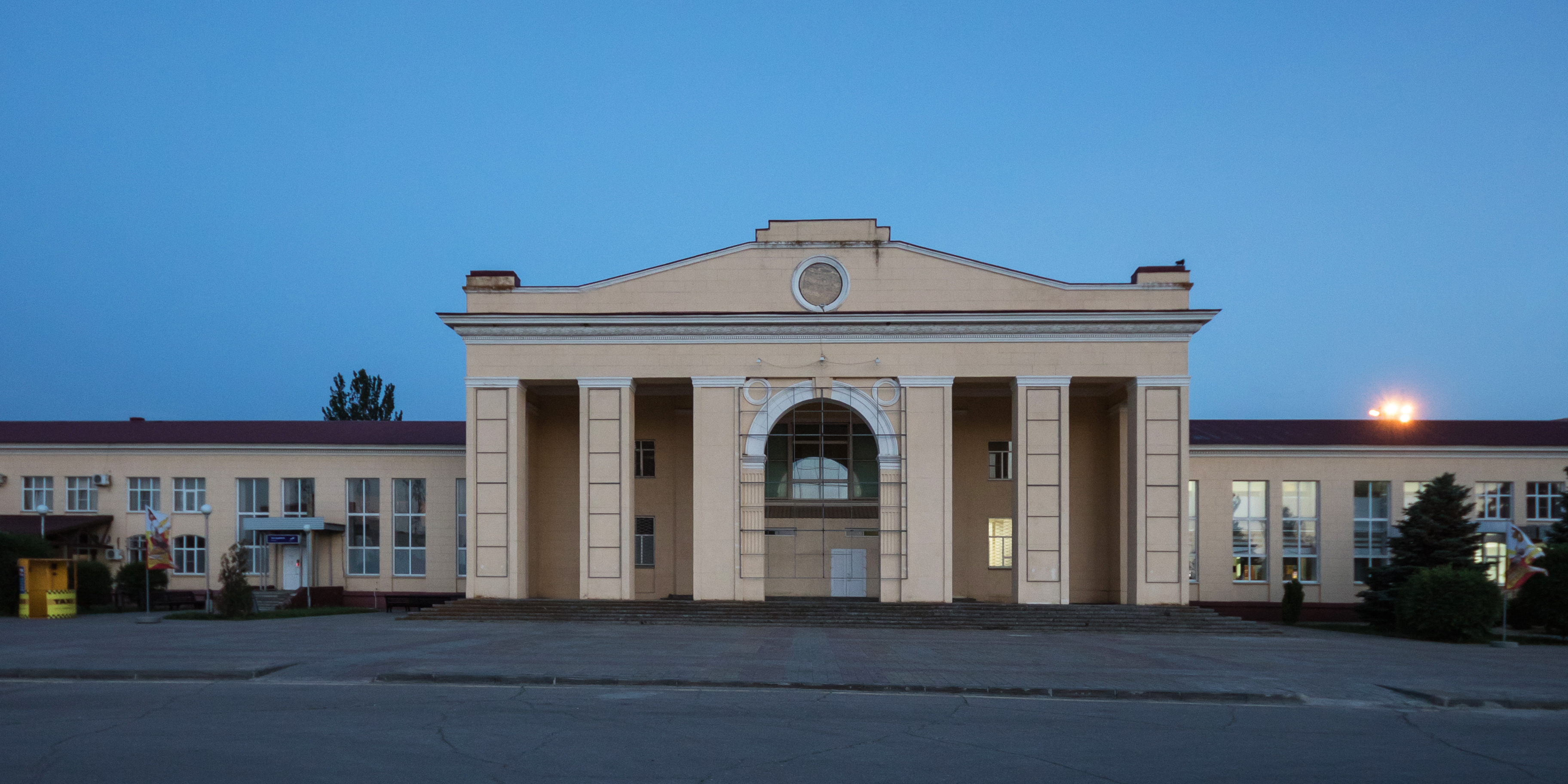 Gumrak Airport in Volgograd, Russia